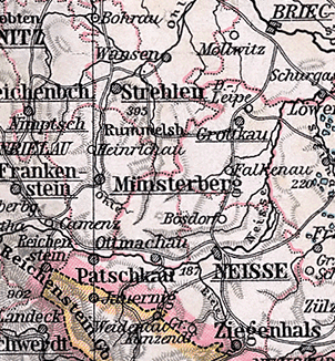 Detail from a map of Silesia.